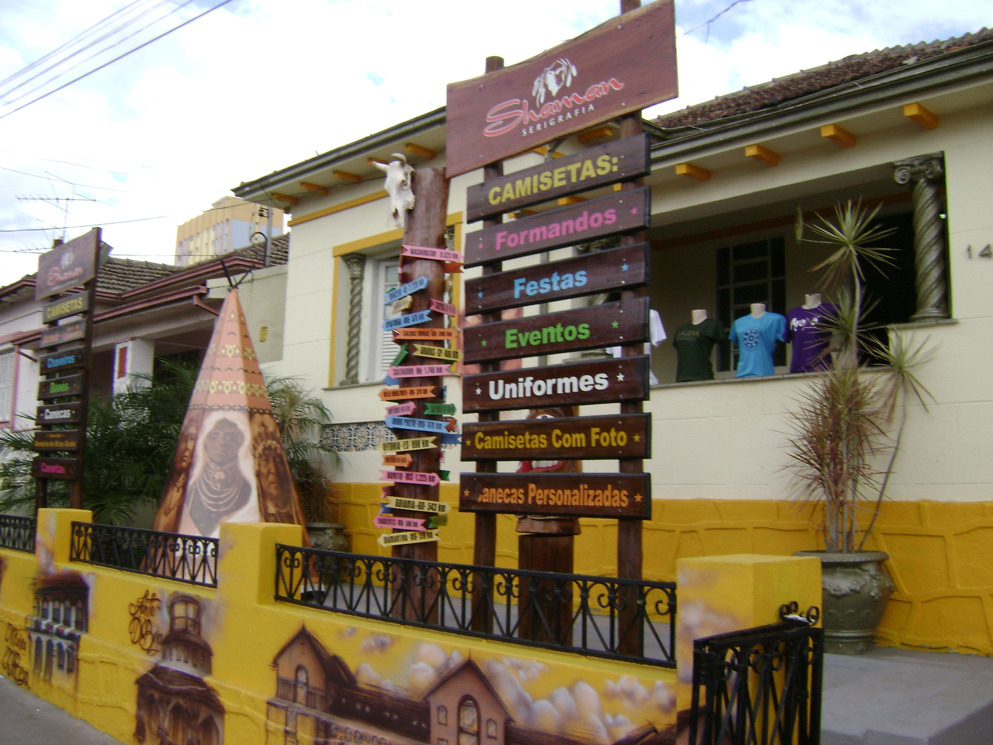 Loja de roupas com estampas indígenas em Araxá, Minas Gerais, Brasil.